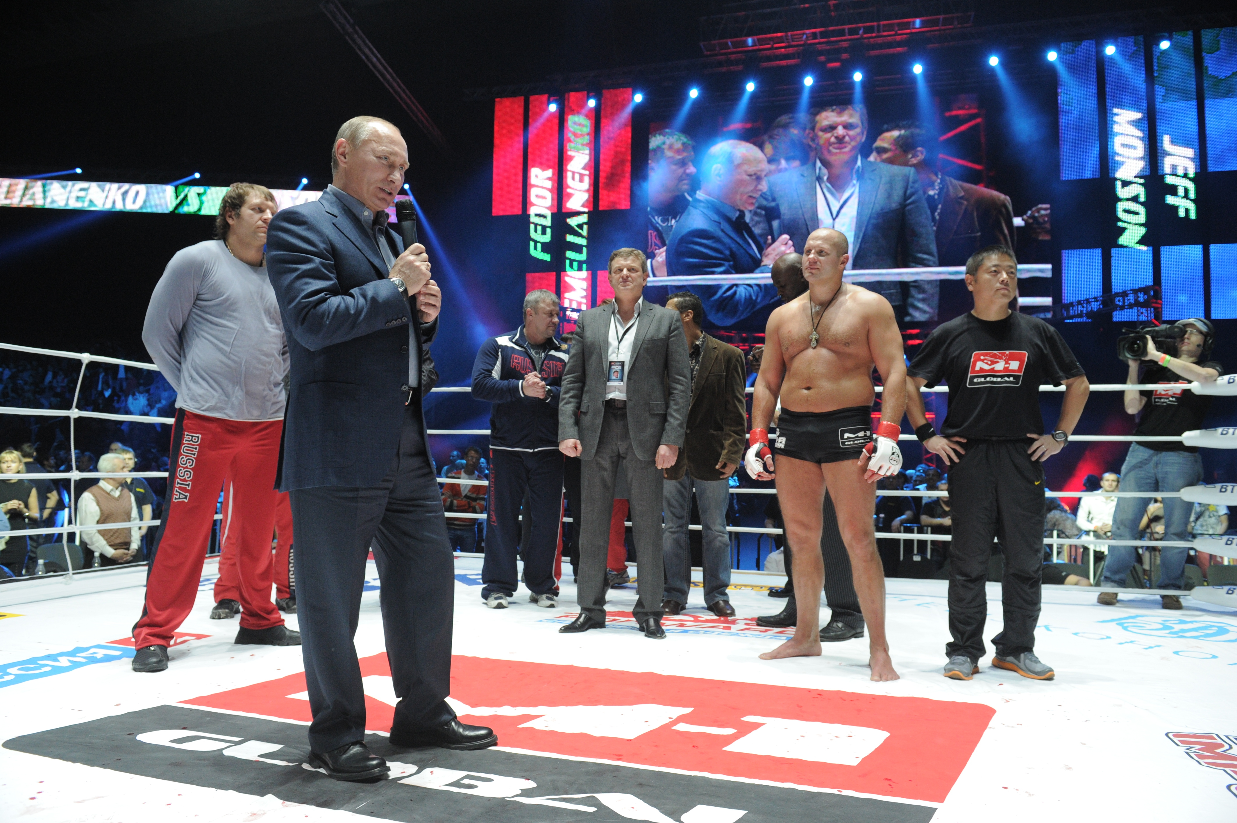 Prime Minister Vladimir Putin, foreground left, congratulates Russia's Fedor Emelianenko, 2nd right, on his win over the United States' Jeff Monson at the M-1 Global mixed martial arts tournament match at Moscow's Olimpiysky Sports Complex, November 20, 2011.[